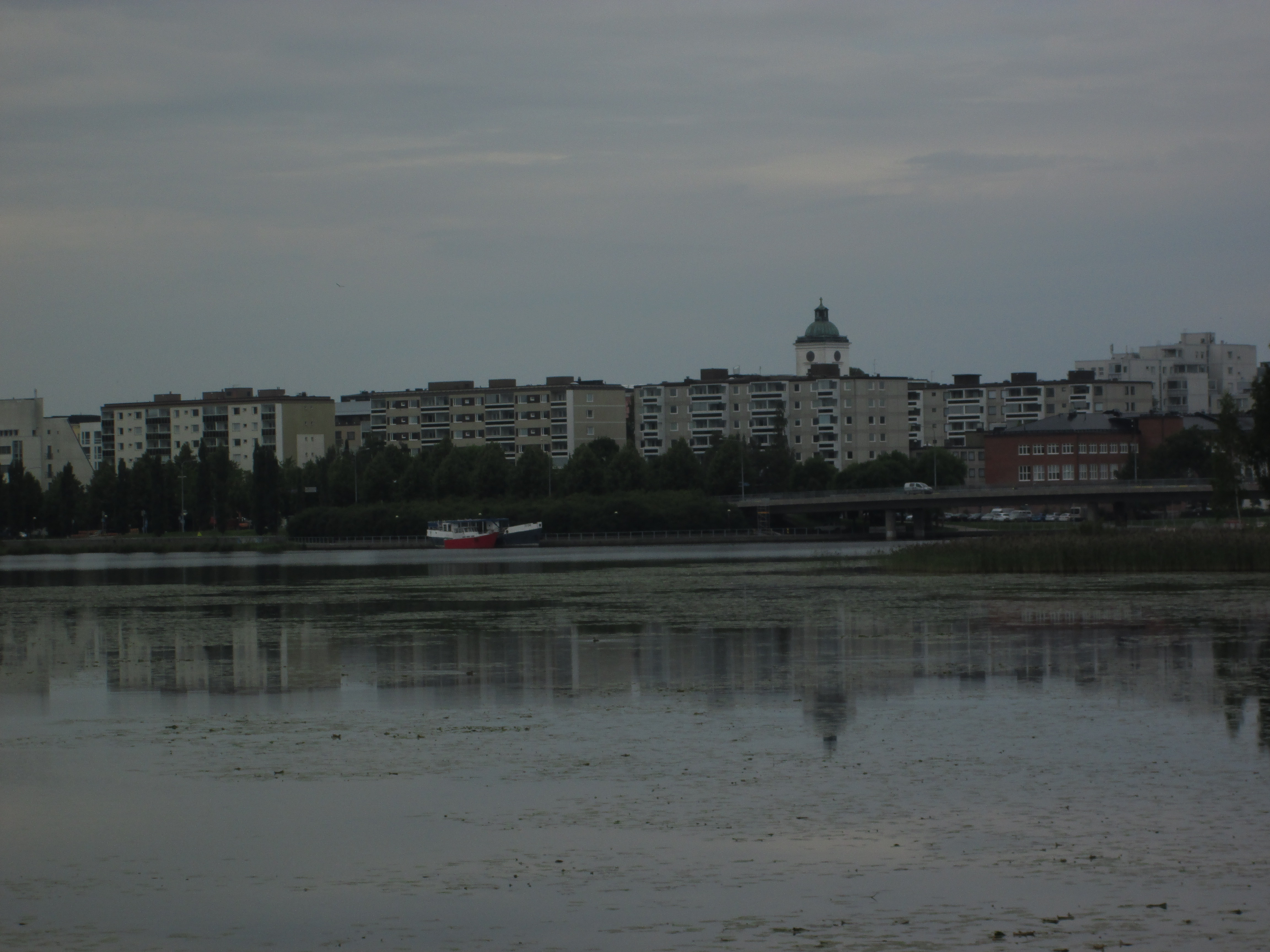 Saaristenmäki hill